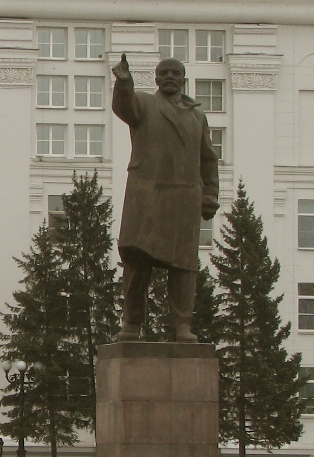 Statue of Vladimir Lenin in Kemerovo.